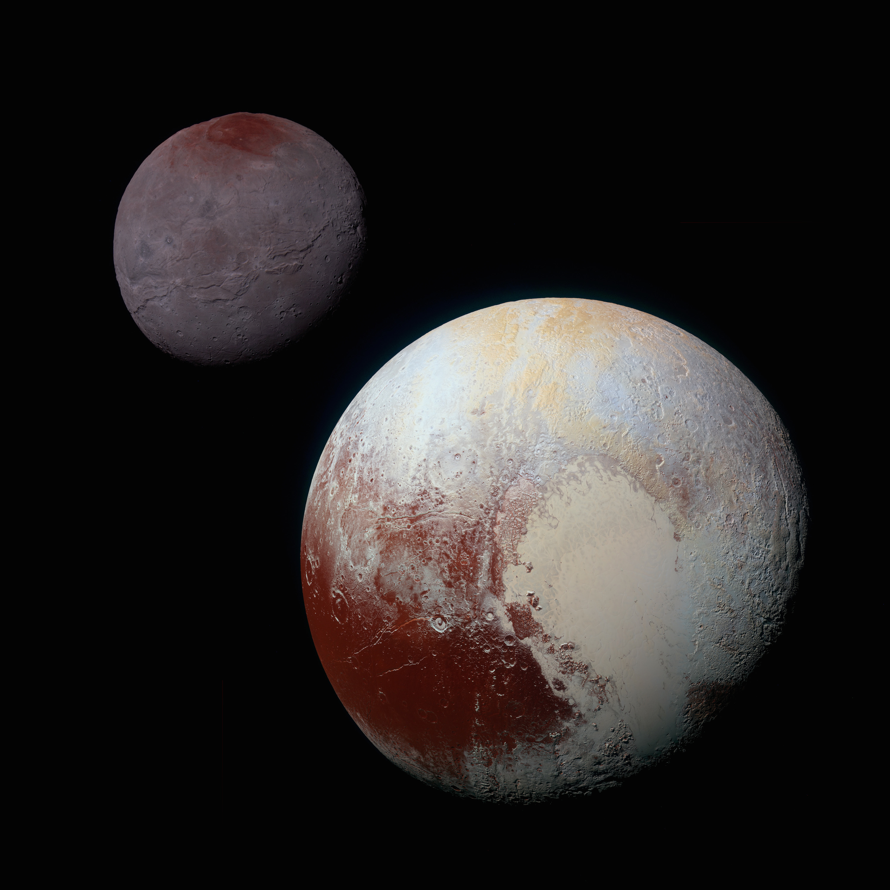 Charon and Pluto: Strikingly Different Worlds A composite of enhanced color images of Pluto (lower right) and Charon (upper left), taken by NASA's New Horizons spacecraft as it passed through the Pluto system on July 14, 2015. This image highlights the striking differences between Pluto and Charon. The color and brightness of both Pluto and Charon have been processed identically to allow direct comparison of their surface properties, and to highlight the similarity between Charon's polar red terrain and Pluto's equatorial red terrain. Pluto and Charon are shown with approximately correct relative sizes, but their true separation is not to scale. The image combines blue, red and infrared images taken by the spacecraft's Ralph/Multispectral Visual Imaging Camera (MVIC). The Johns Hopkins University Applied Physics Laboratory in Laurel, Maryland, designed, built, and operates the New Horizons spacecraft, and manages the mission for NASA's Science Mission Directorate. The Southwest Research Institute, based in San Antonio, leads the science team, payload operations and encounter science planning. New Horizons is part of the New Frontiers Program managed by NASA's Marshall Space Flight Center in Huntsville, Alabama.